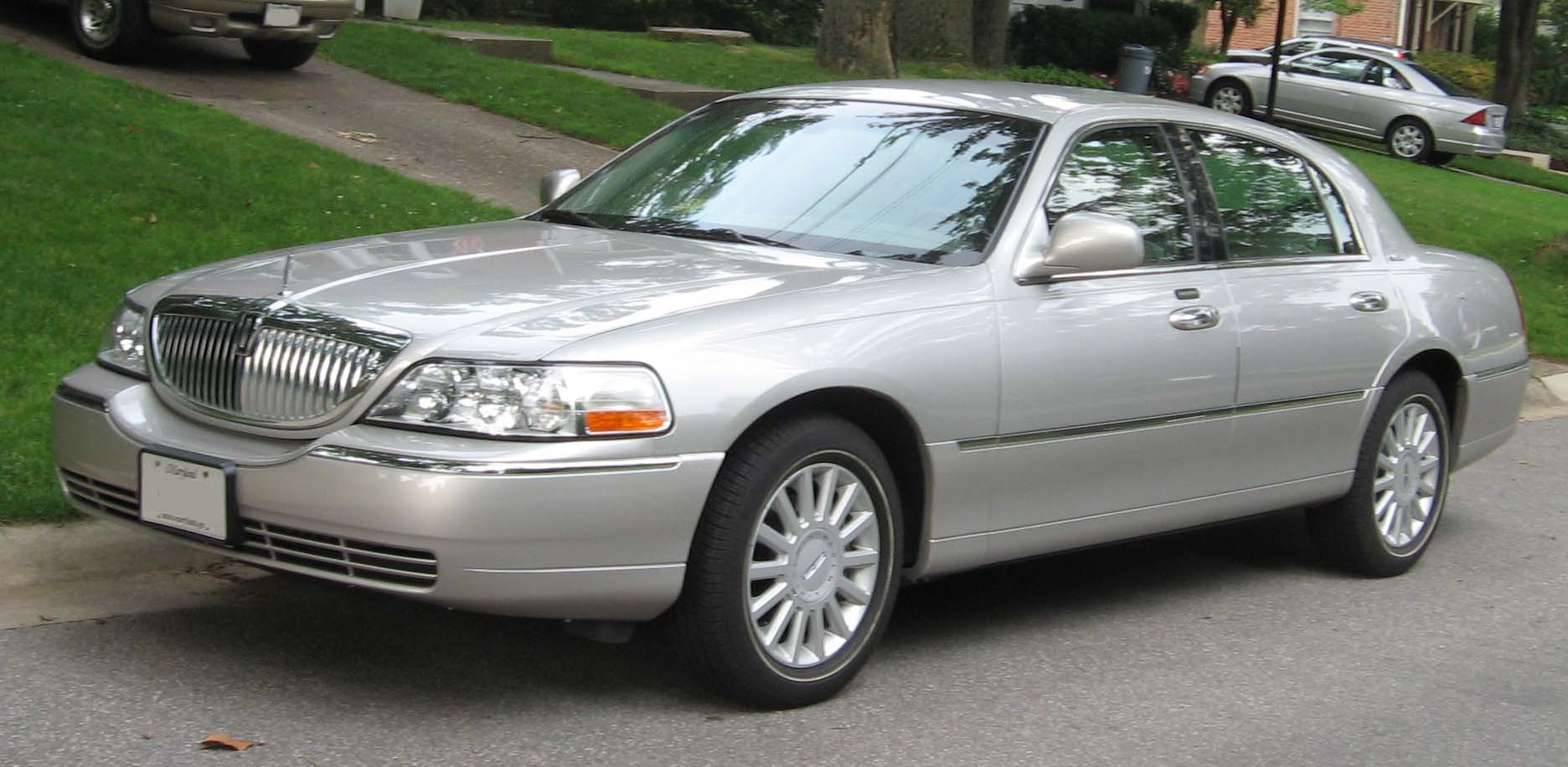 2003-2007 Lincoln Town Car photographed in USA.